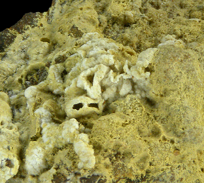 Slavíkite Locality: Valachov Hill, Skřivaň, Central Bohemia Region, Bohemia (Böhmen; Boehmen), Czech Republic (Locality at ) Size: 5.1 x 4.1 x 2.8 cm. Slavikite is a rare hydrated Sodium, Magnesium, Iron Sulfate, and specimens from the type locality are certainly not commonly available. This piece from the Richard A. Kosnar collection features classic pale yellow color Slavikite masses on matrix.